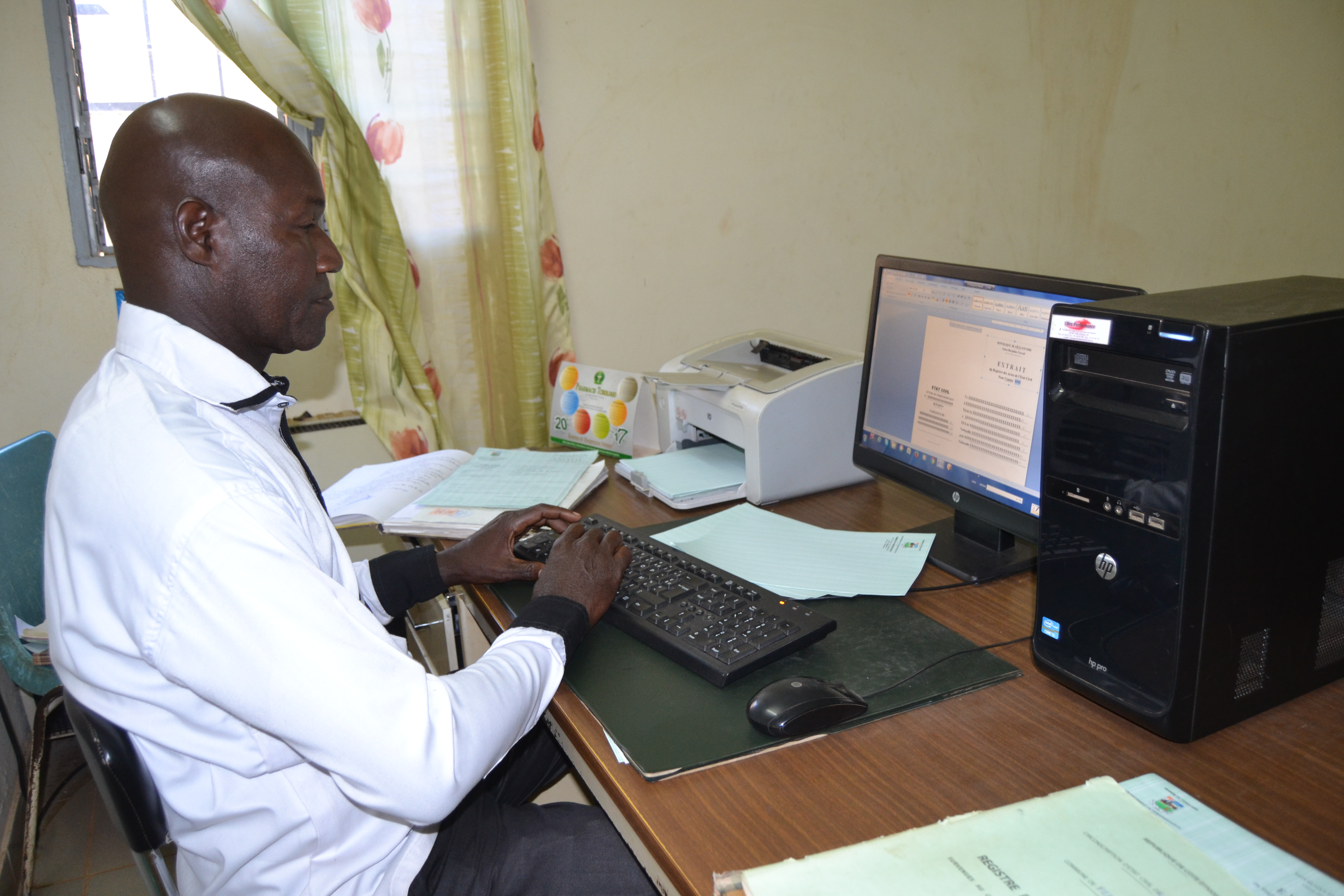 Un opérateur de saisie en pleine journée de travail à la maire de Ferké, une ville située au Nord de la Côte d'Ivoire. La ville est à environ 600 km d'Abidjan, la capitale économique ivoirienne. This is an image of "African people at work" from Ivory Coast